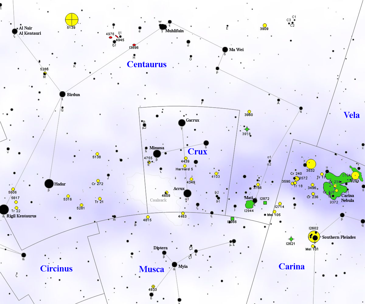 Crux constellation map, with DSOs